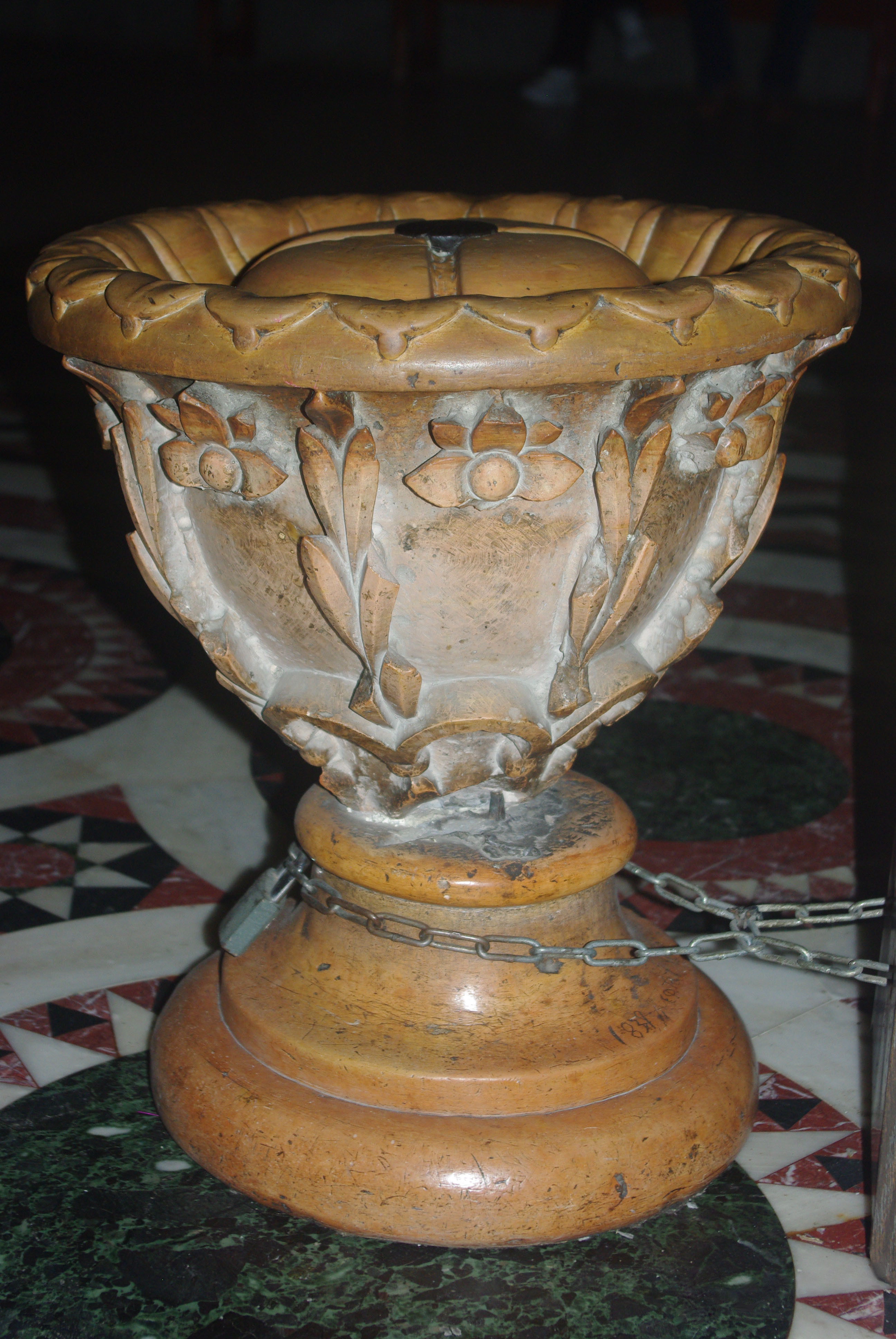 Foundation Stone (omphalos), Church of the Holy Sepulchre